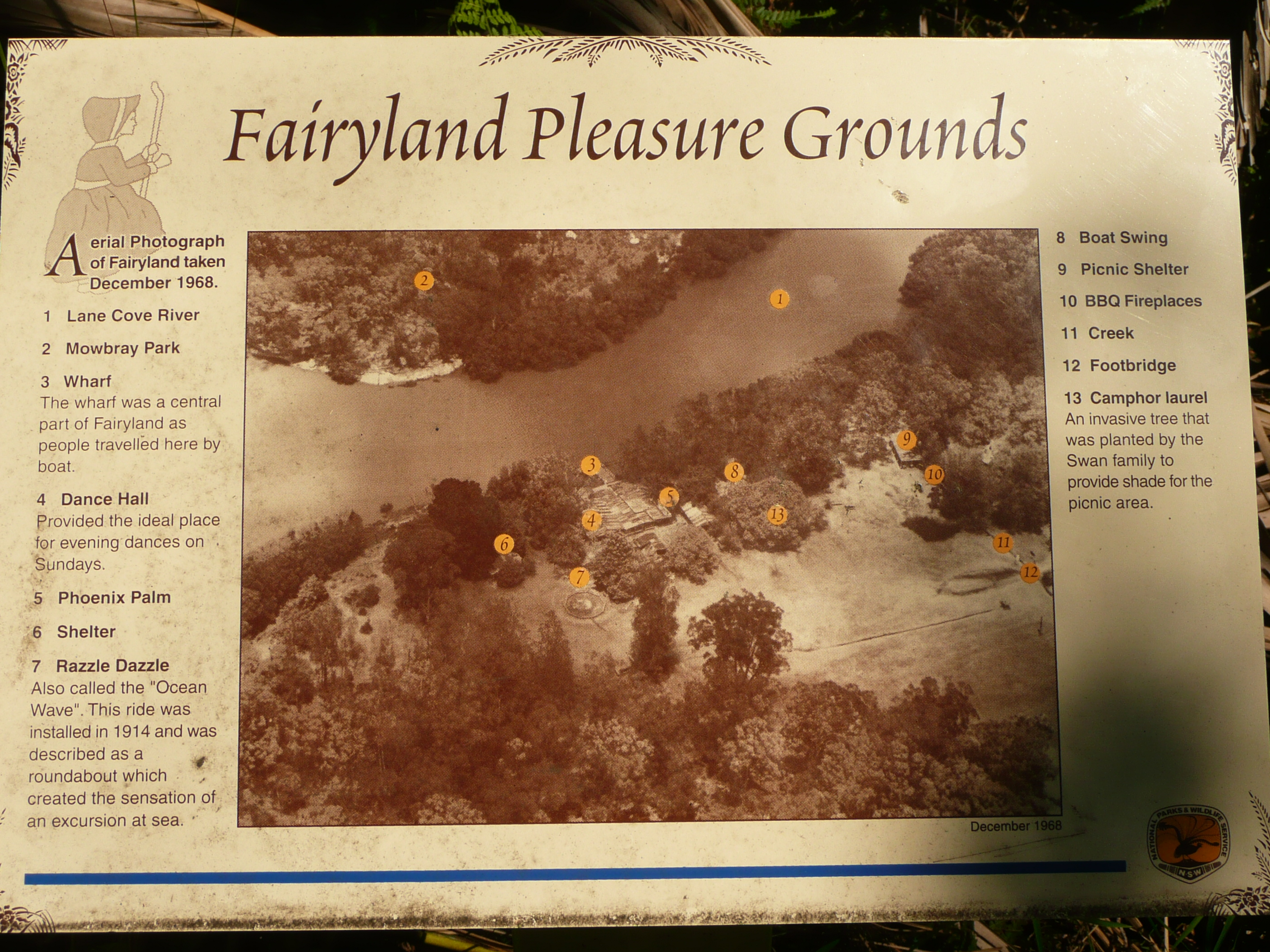 lane cove river sign, sydney